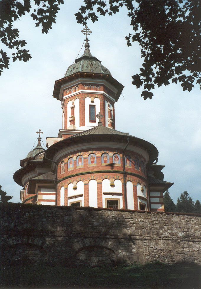 Great Church of Sinaia Monastery